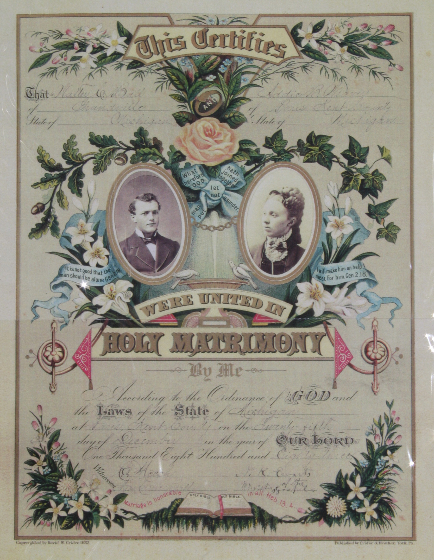 A photograph of a wedding license from 1883.